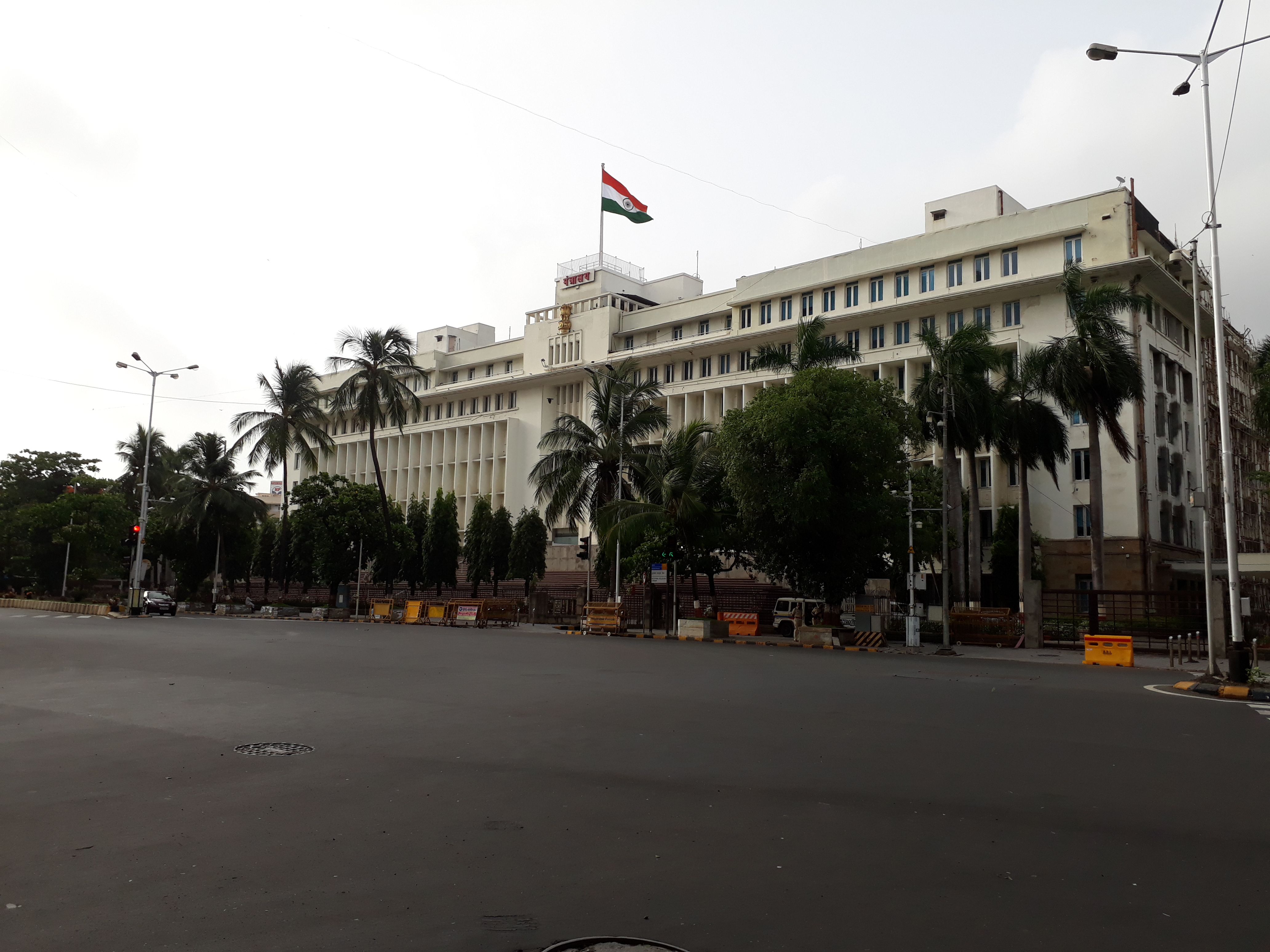 Mantralay of Mumbai, Administrative Headquarters of the State Government of Maharashtra